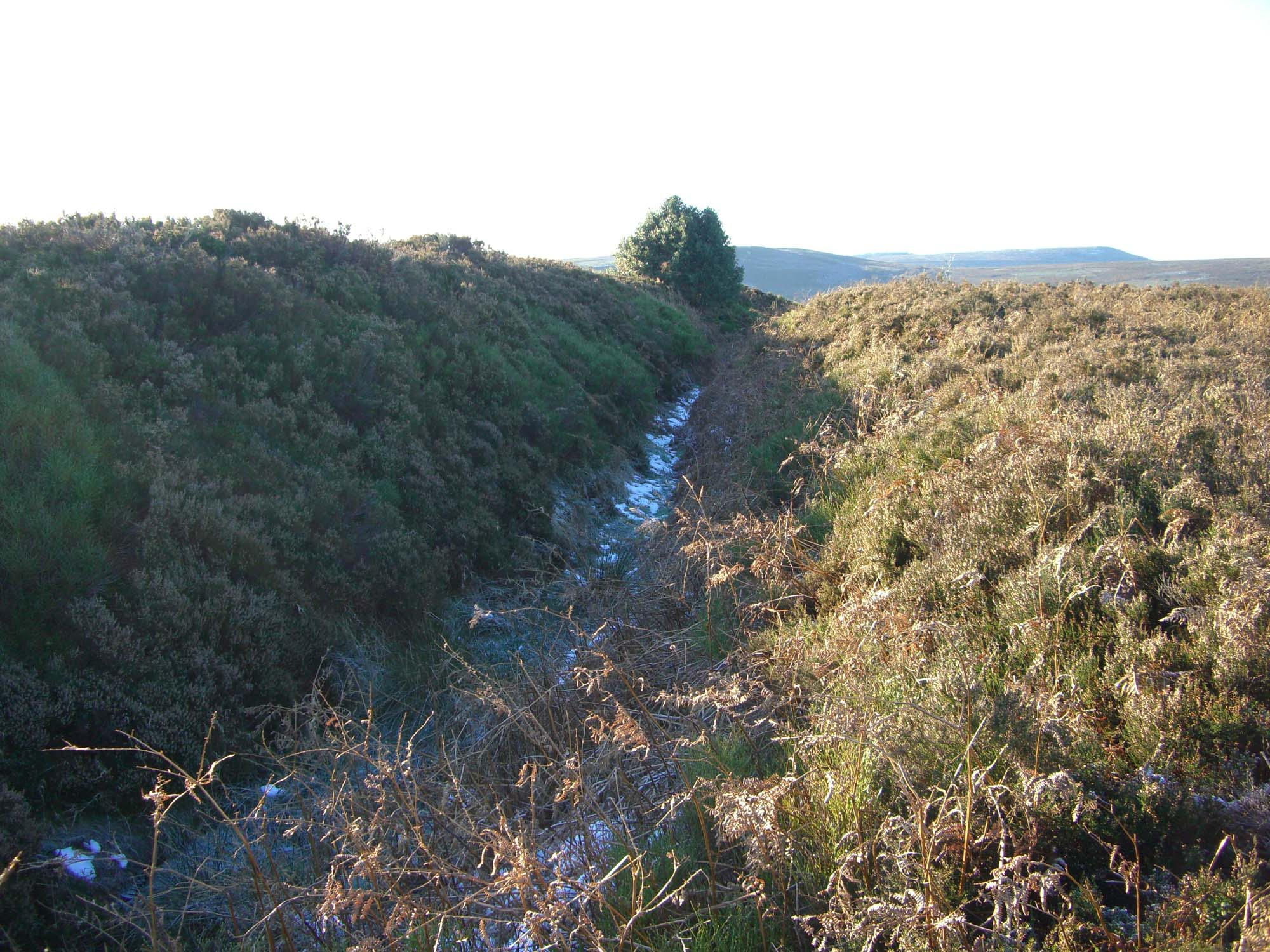 The Bar Dike, a Dark Ages boundary ditch near Low Bradfield, Sheffield, England